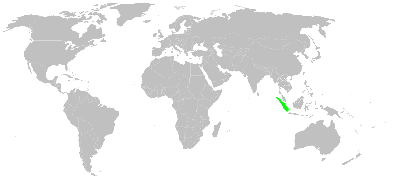 Partial distribution of Thianitara spectrum. Its full distribution is from Burma to Sumatra.